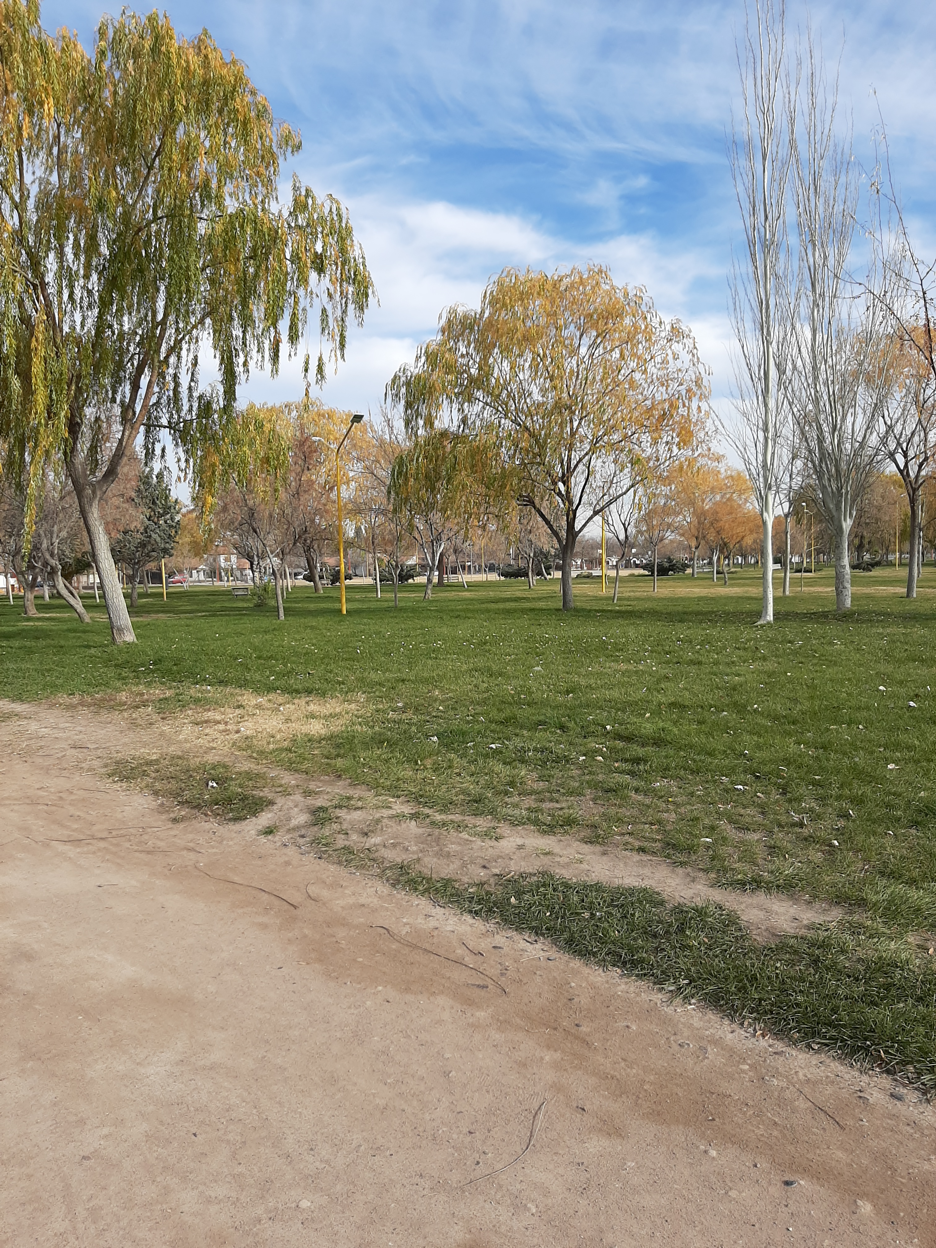 The North Park is located to the north of the city of Cipolletti, for this reason it is the name of this space.